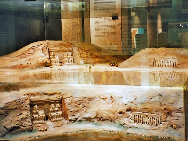 Motiv: Model showing the relative positions of the Abu Simbel temples before and after their relocation; the horizontal line in the center of the photo indicates Lake Nasser's current water level. Nubian Museum, Aswan. Datei: AbuSimbel_Egypt_03.jpg Quelle: [1] Urheber: Photo taken by Hajor, December 2002 Lizenz: Released under cc-by-sa and/or GFDL.